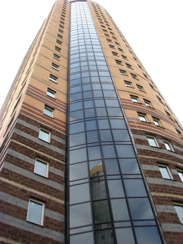 Northern valley